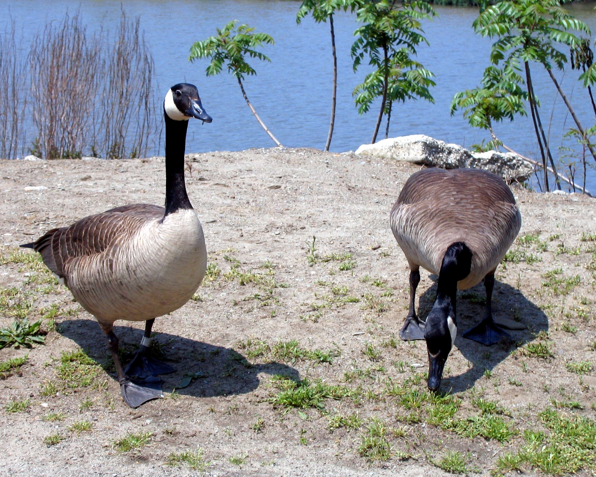 Photographed near Lake Erie in Conneaut Harbor, Conneaut